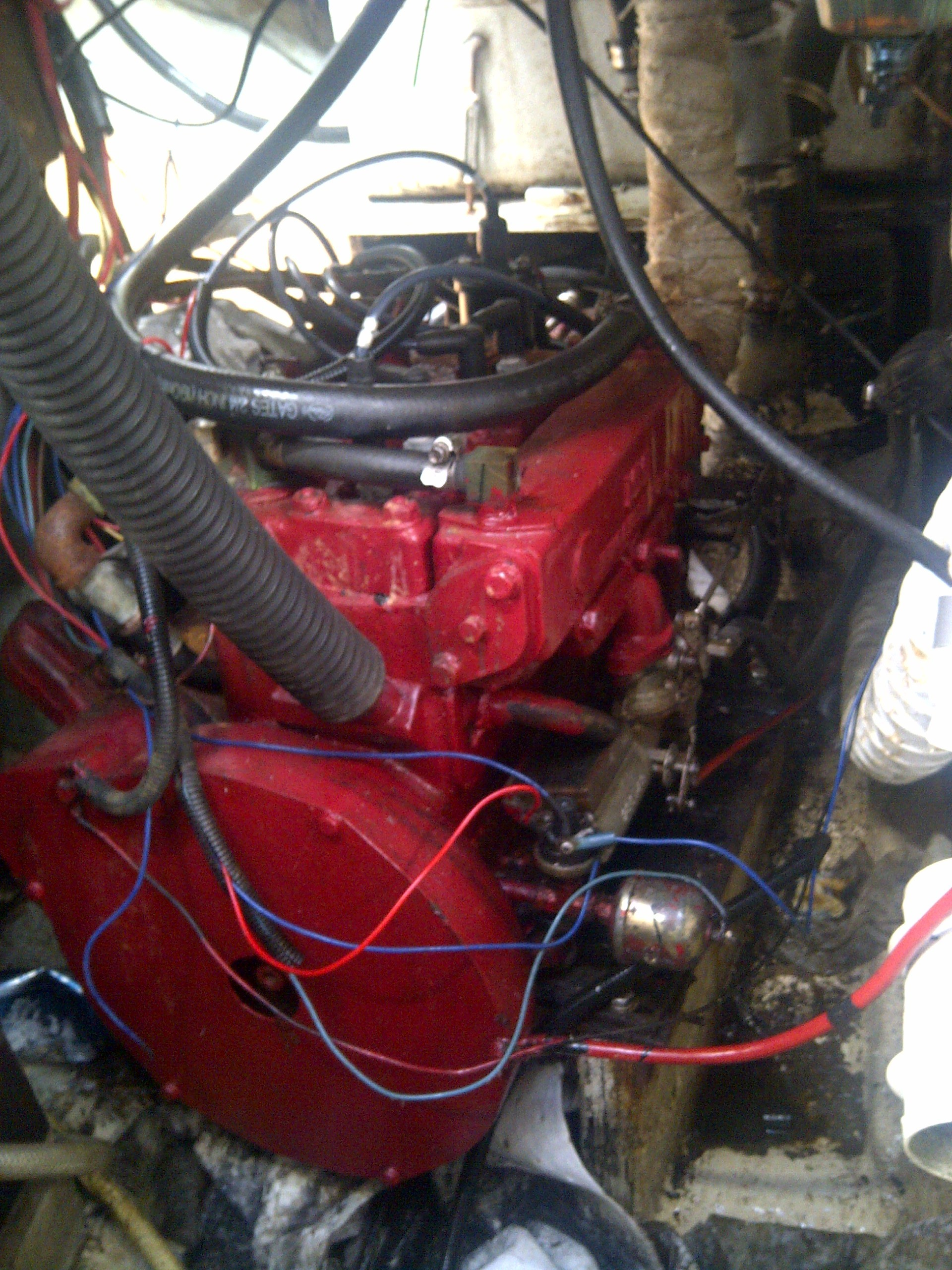 A Universal Atomic 4 from 1977, installed in a C&C 29 Mk1 sailboat. Still operational as of 2020.